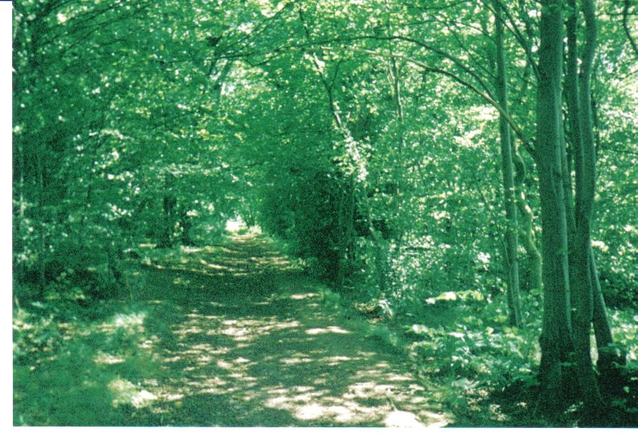 The leisure drive through the woods for coaches. The HaHa is to the left and Anderson's Plantation is straight ahead. Thid is now part of the Stewarton Woodland Action Trust's footpath from Stewarton and back past Kirkmuir and Righead.